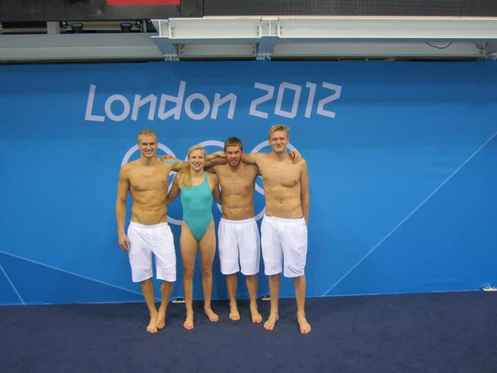 Lithuanian swimming squad at 2012 Olympic Games